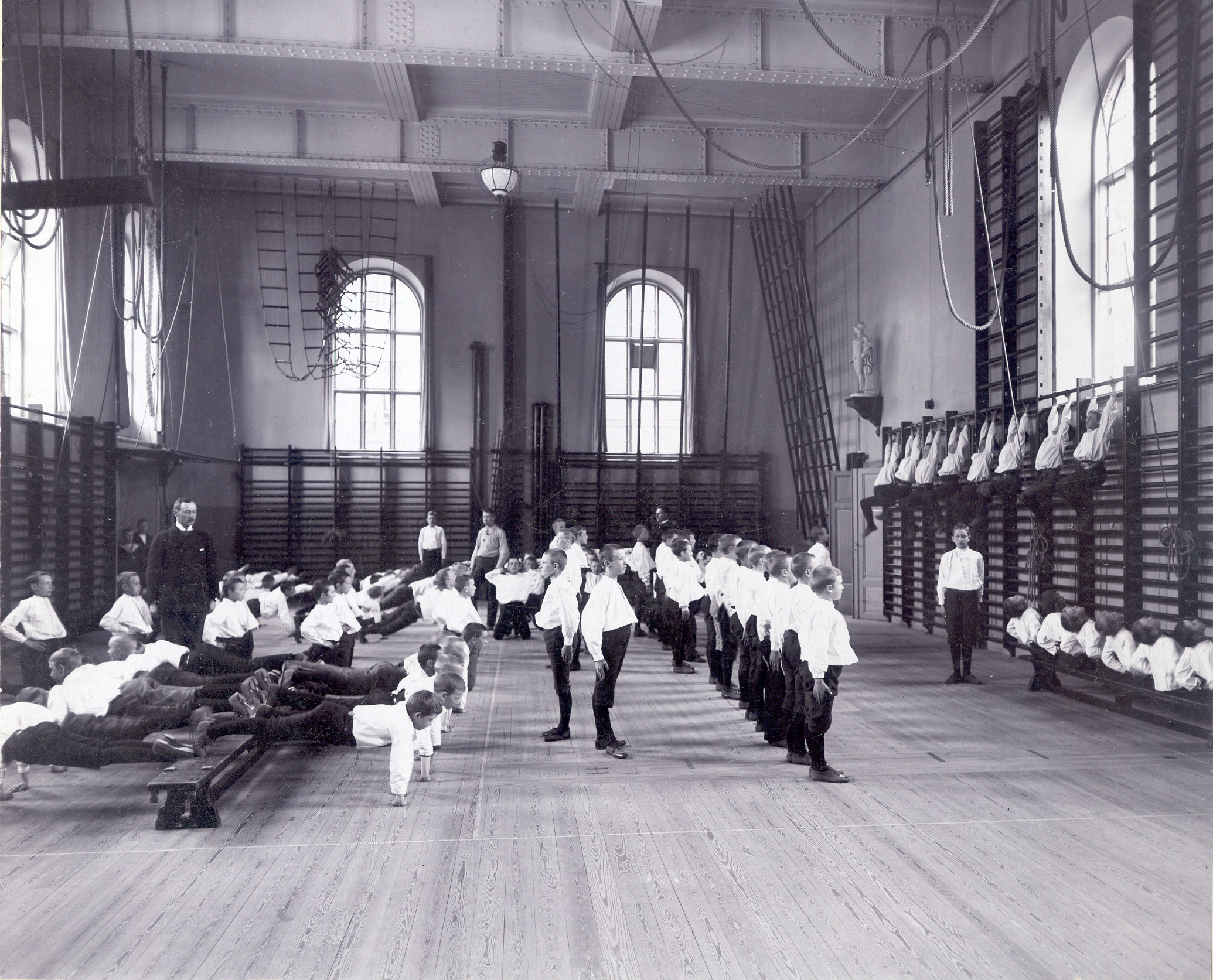 Swedish gymnastics at the Royal Gymnastics Central Institute in Stockholm: Gymnastics for boys, about 1900